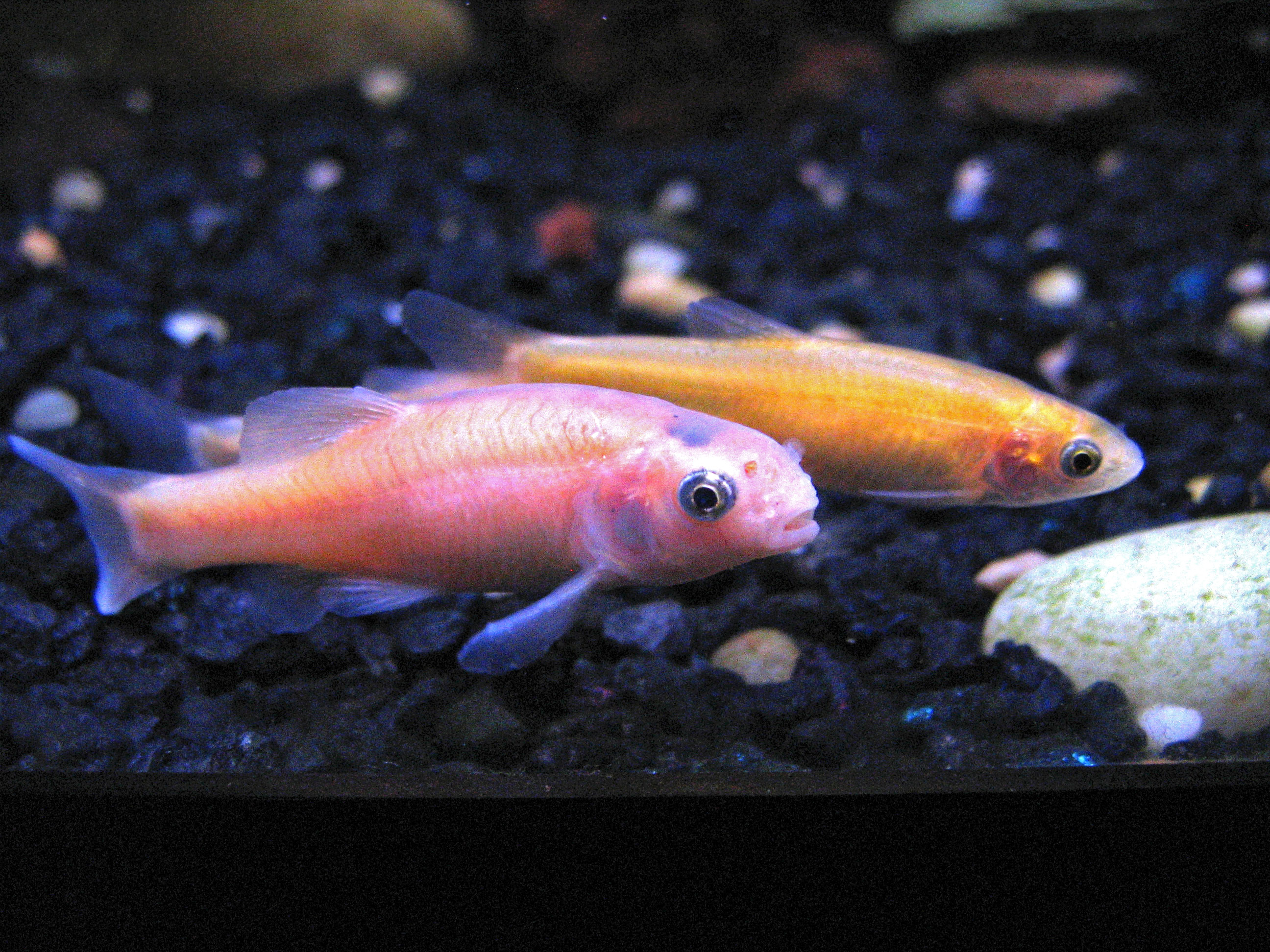 Three rosy red / fathead minnows in a home aquarium. Male foreground, two females rear. All three are named Jennifer, and live in a 20 gallon tank with crayfish and snails in New York City.